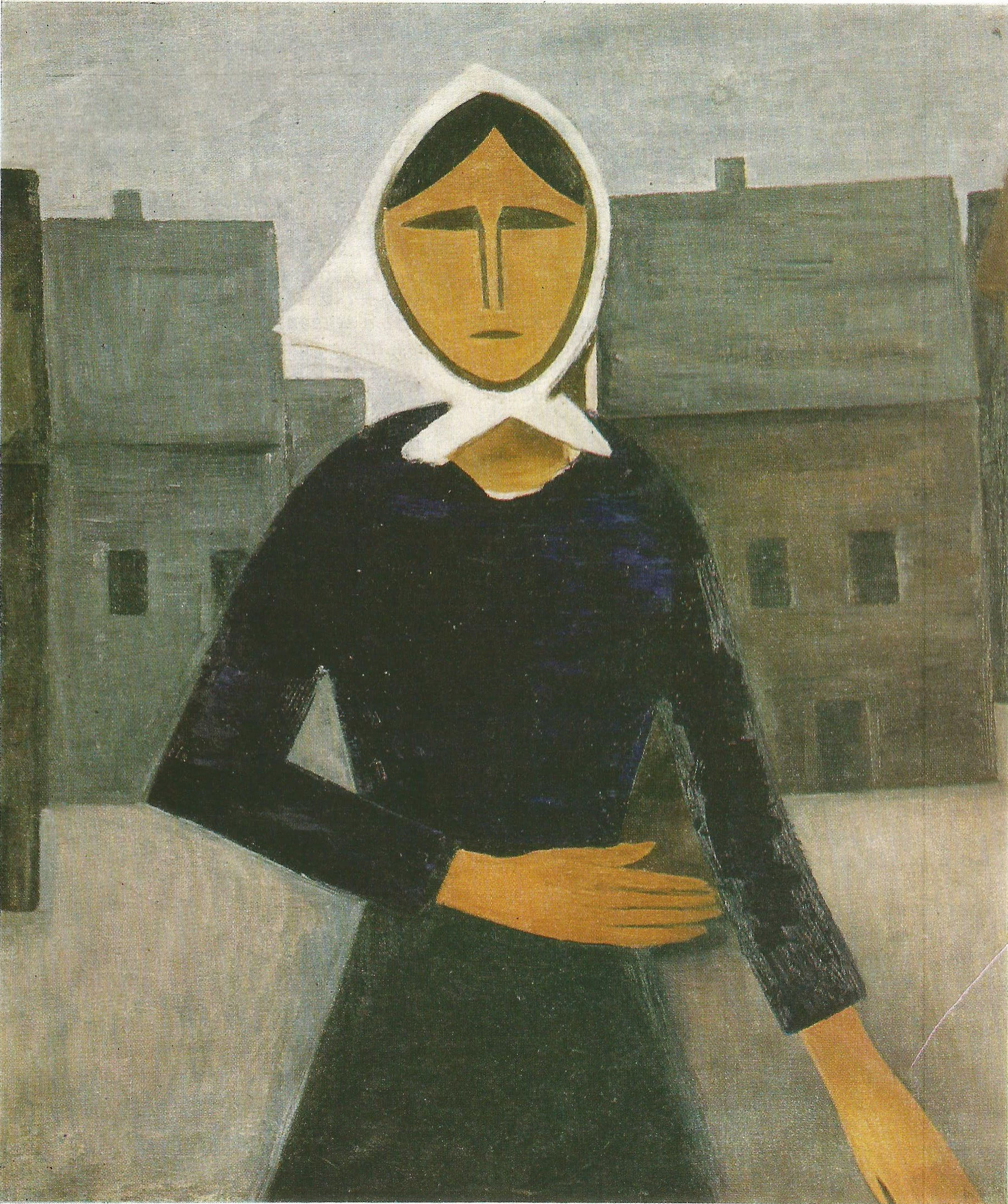 Aleksandr Drevin. Refugee. 1916. Canvas, oil. 100x89. Russian Museum: ЖБ 1404